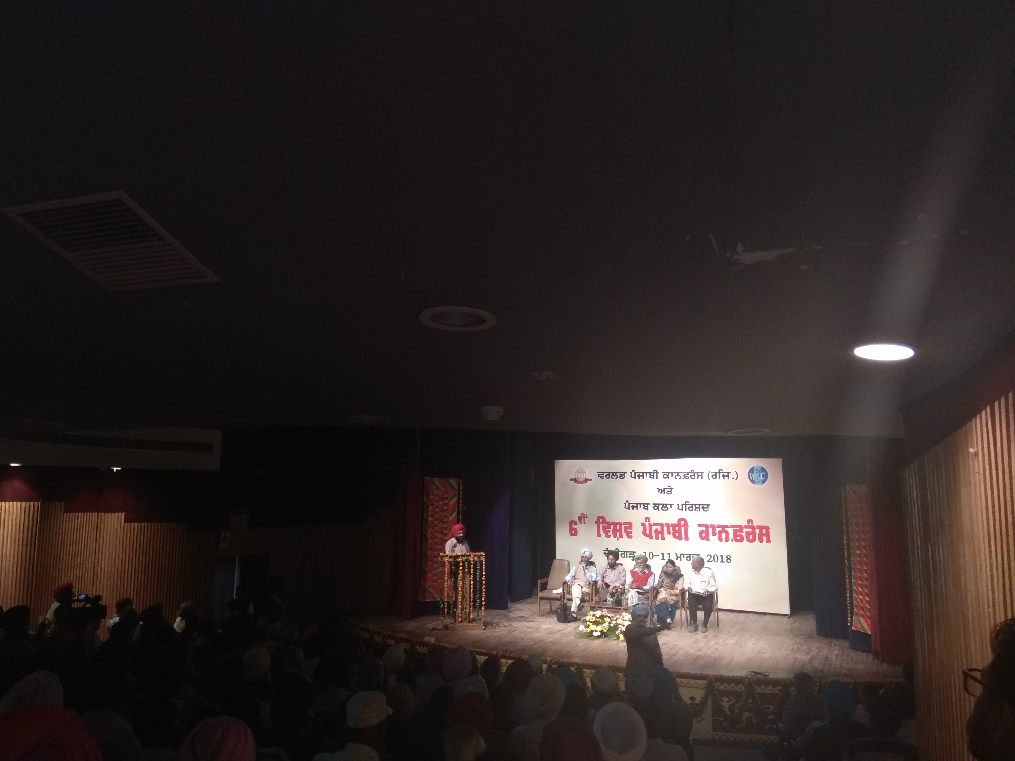 Dr. Ravel Singh adressing the deligates at 6th World Punjabi Conference